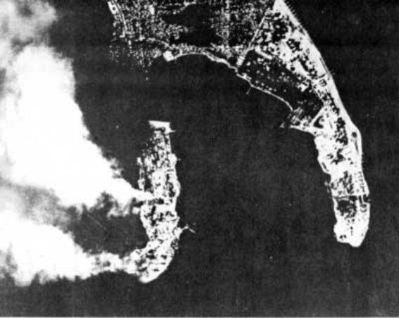 Aerial photo of the Japanese air attack on the U.S. Naval Station Sangley Point, Philippines, on 10 December 1941. The Naval Air Station Sanlgley Point is on the right, the Cavite Navy Yard is burning in the lower left.